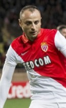 Dimitar Berbatov